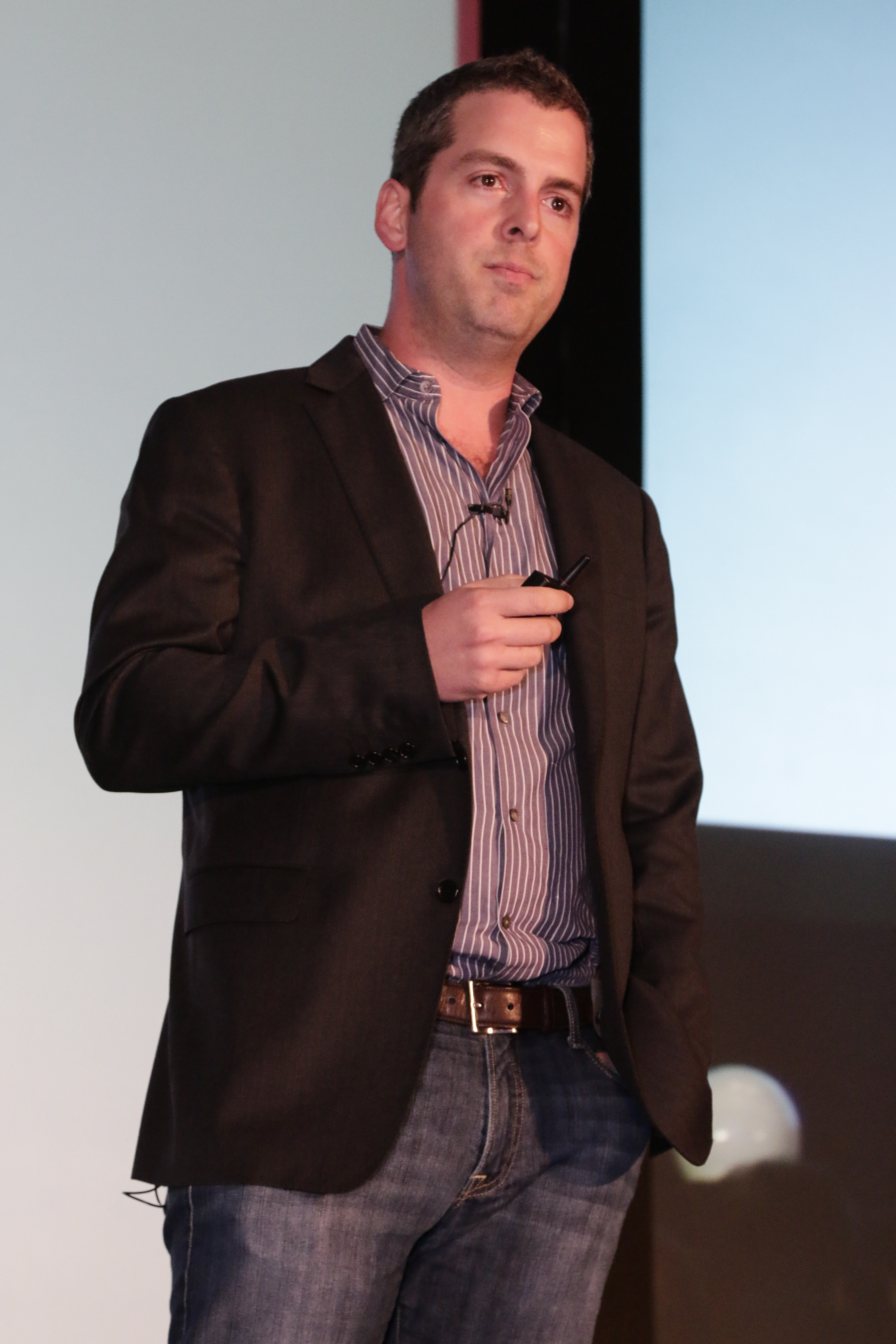 Javier Soltero speaking at the H3 conference in Puerto Rico in November 2014.